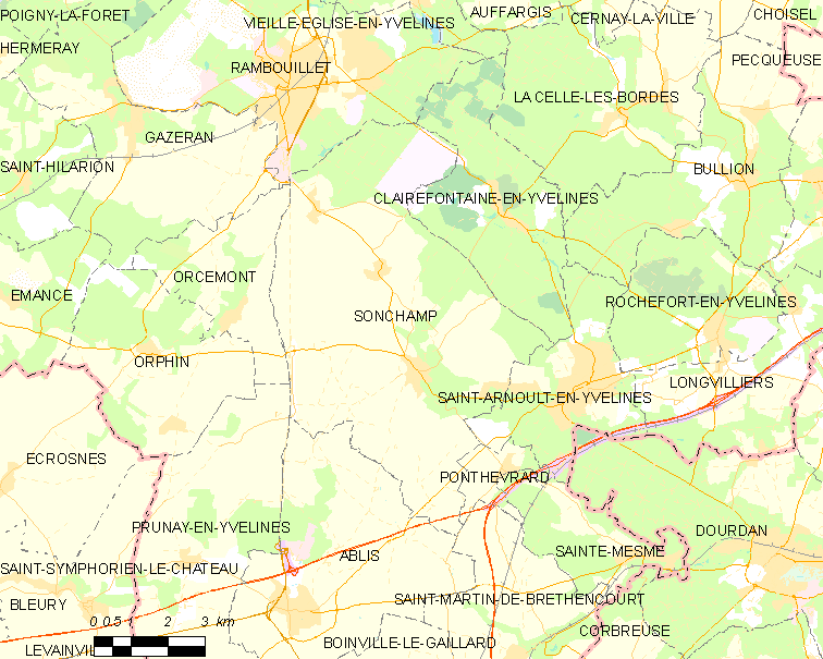 Map of French municipality Sonchamp